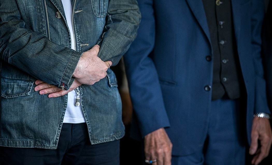 Tehran Friday prayer - 16 March 2018, A Sunni muslim prays beside a Shia